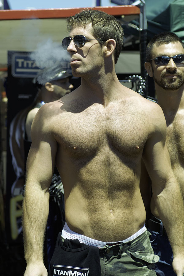 Dean Flynn